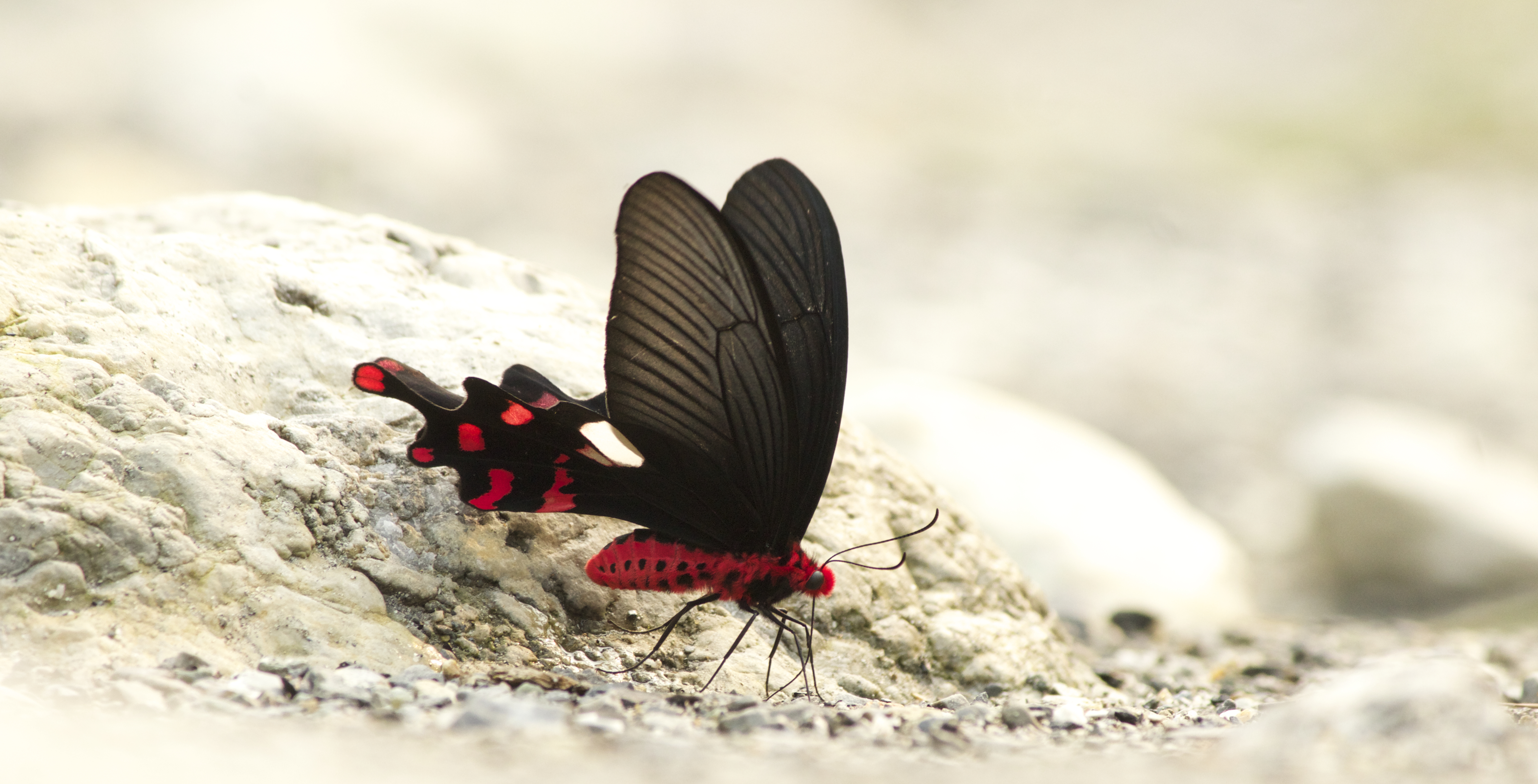 This picture was taken during the project Wiki Loves Butterfly in Buxa Tiger Reserve, Alipurduar. Mud puddling of Common Windmill(Byasa polyeuctes) (পংখিল) found in Jayanti river bed. Close wing position of Byasa polyeuctes Doubleday, 1842 – Common Windmill